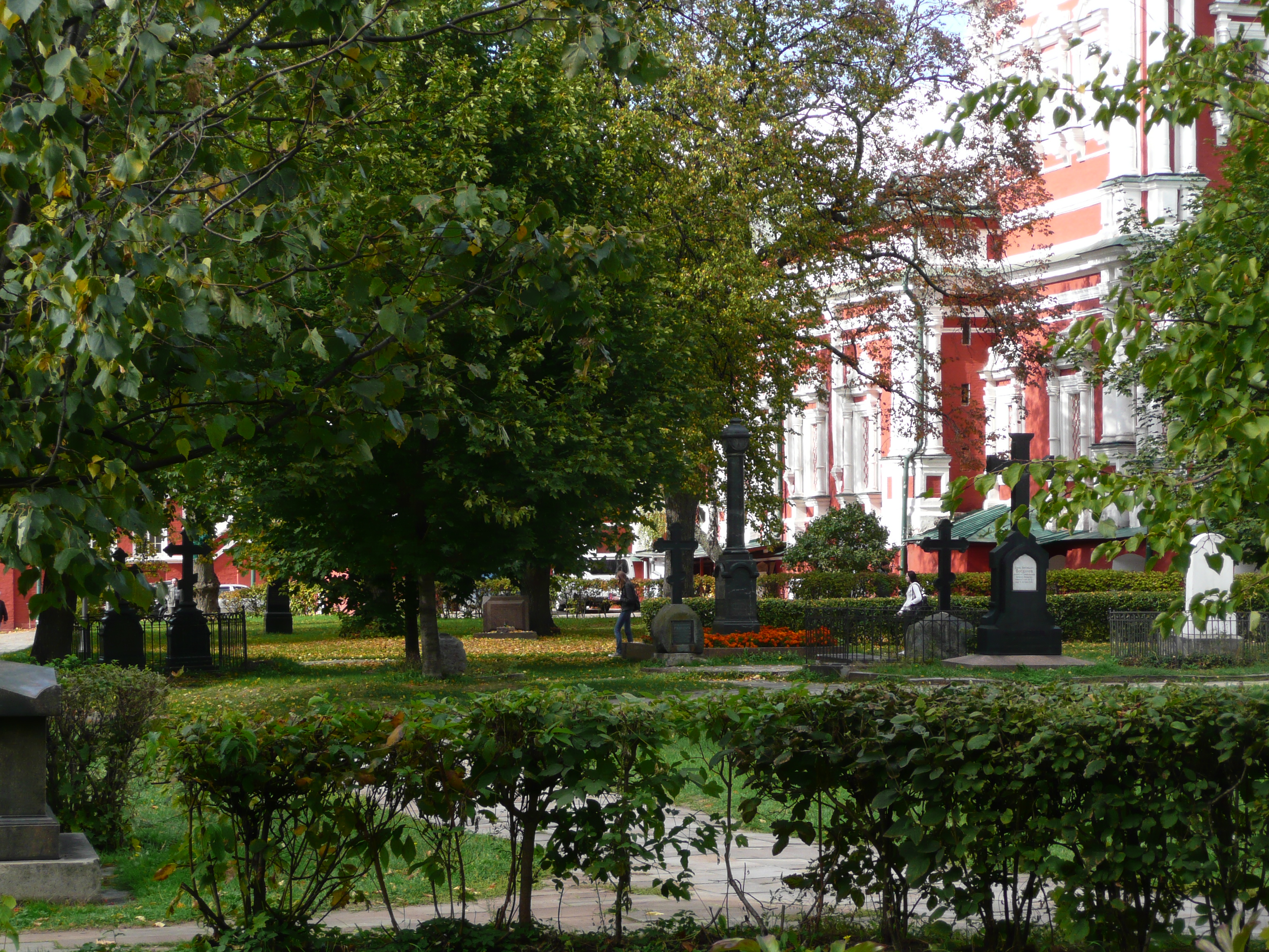 The 19th-century necropolis of the Novodevichy Convent